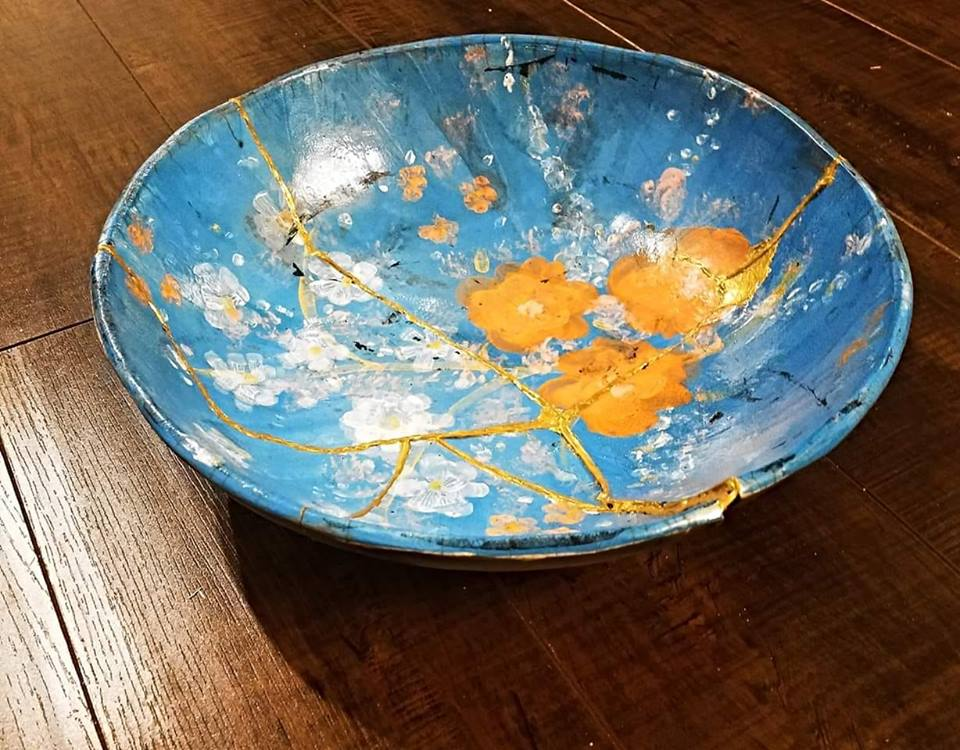 This piece uses Kintsugi: the Japanese method of repairing broken pottery with lacquer mixed with powdered gold.